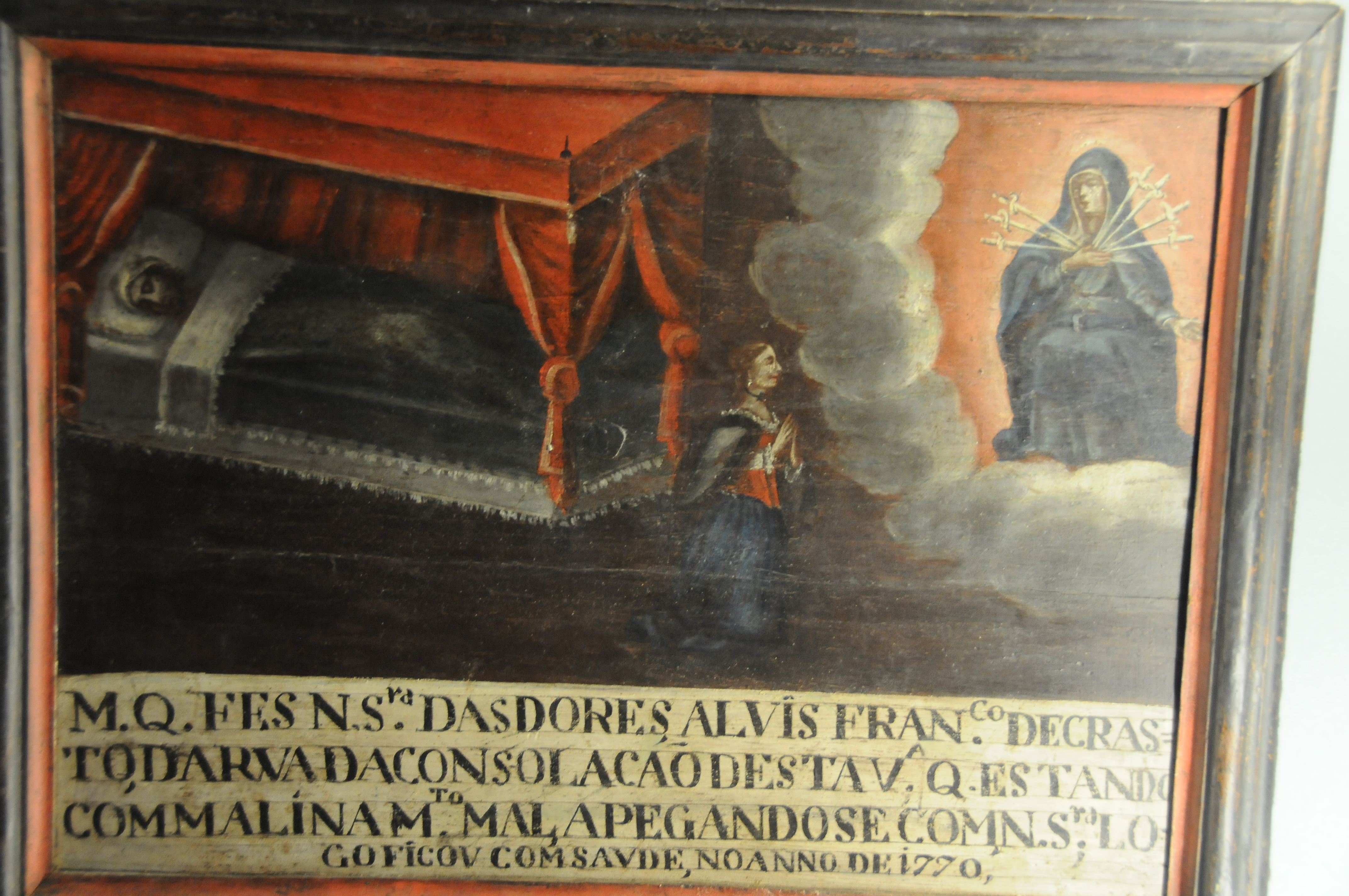 Museu Municipal de Etnografia e História da Póvoa de Varzim